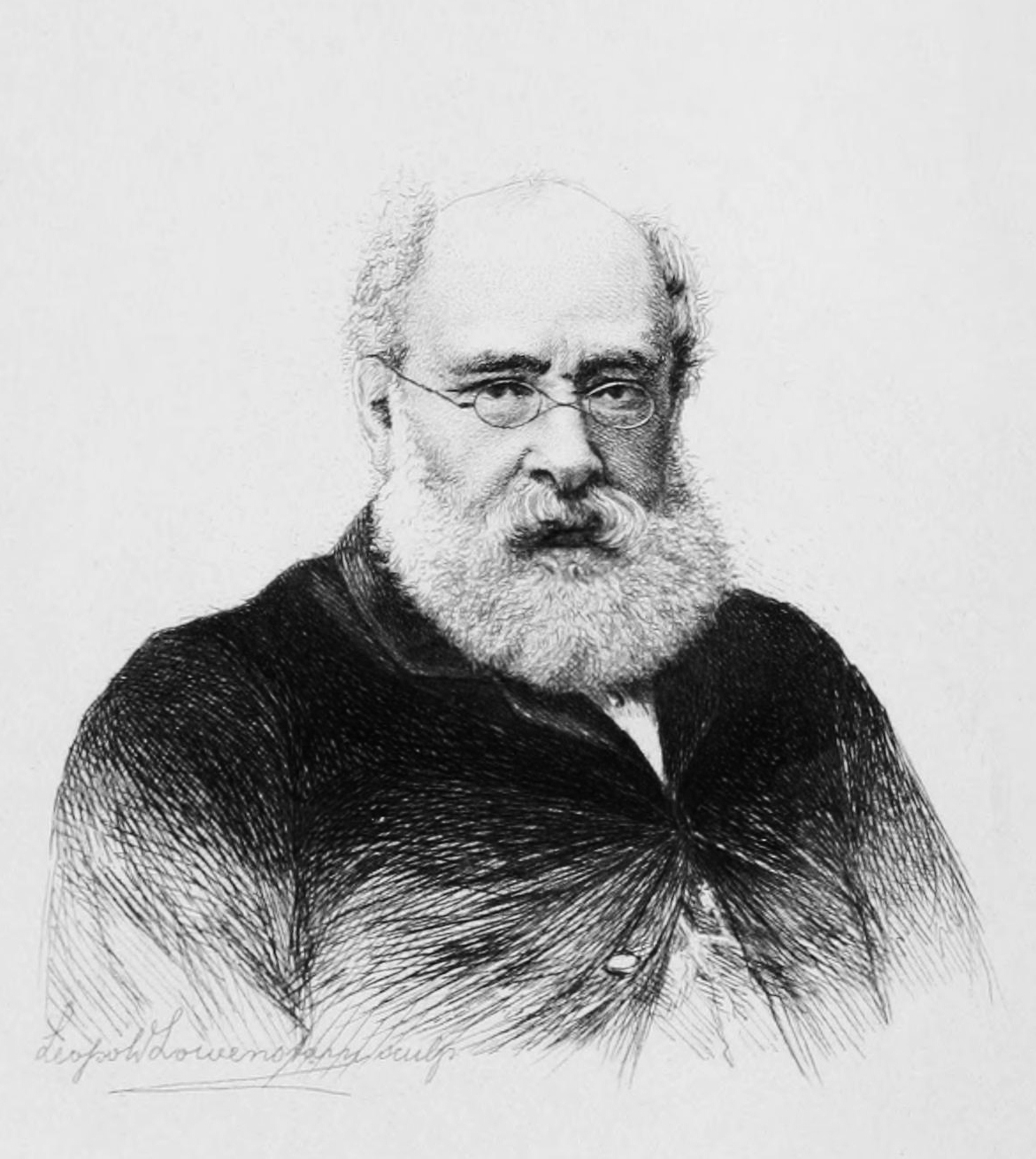 Anthony Trollope c1870s